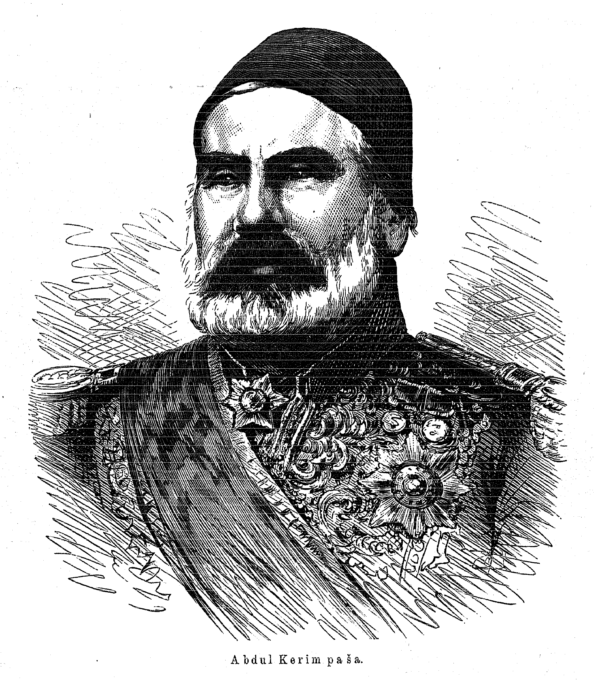 Portrait of Abdülkerim Nadir Pasha (1807 - 1883), a Turkish general during wars in 1876-77.